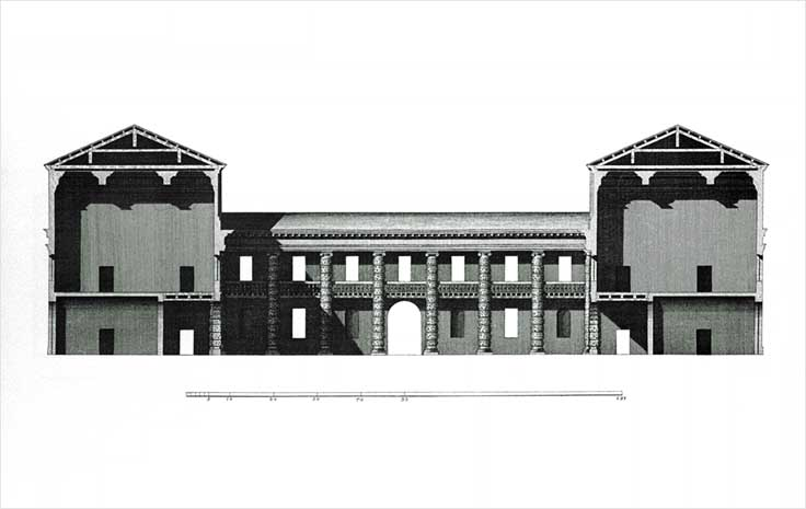 Villa Serego, Santa Sofia di Pedemonte in San Pietro in Cariano (Province of Verona). Drawing by Ottavio Bertotti Scamozzi, 1781.